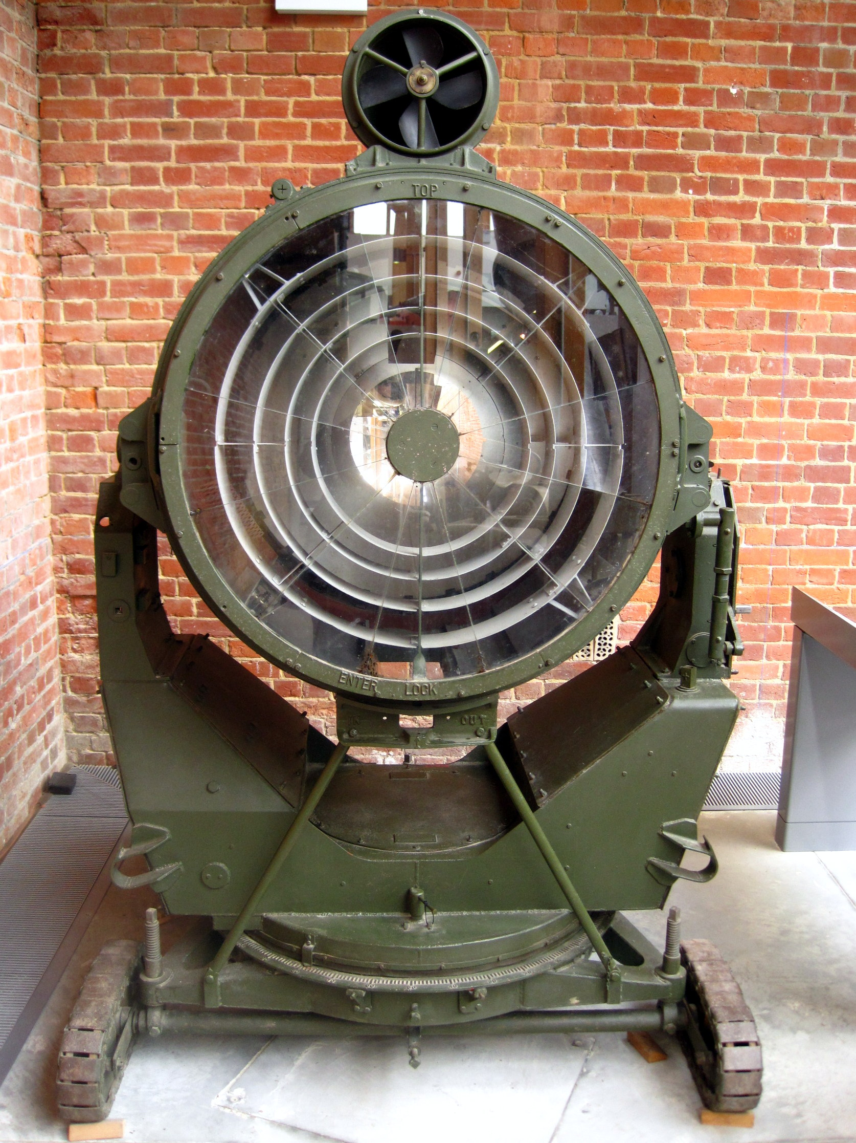 90cm Projector Anti-Aircraft, British, c.1940. At Fort Nelson, Hampshire, England. Height: 2.6m (8'6") Weight: 662kg (1,460lb) Crew: 9 Luminosity: 2 billion candlepower Ceiling: 8km (5 miles)